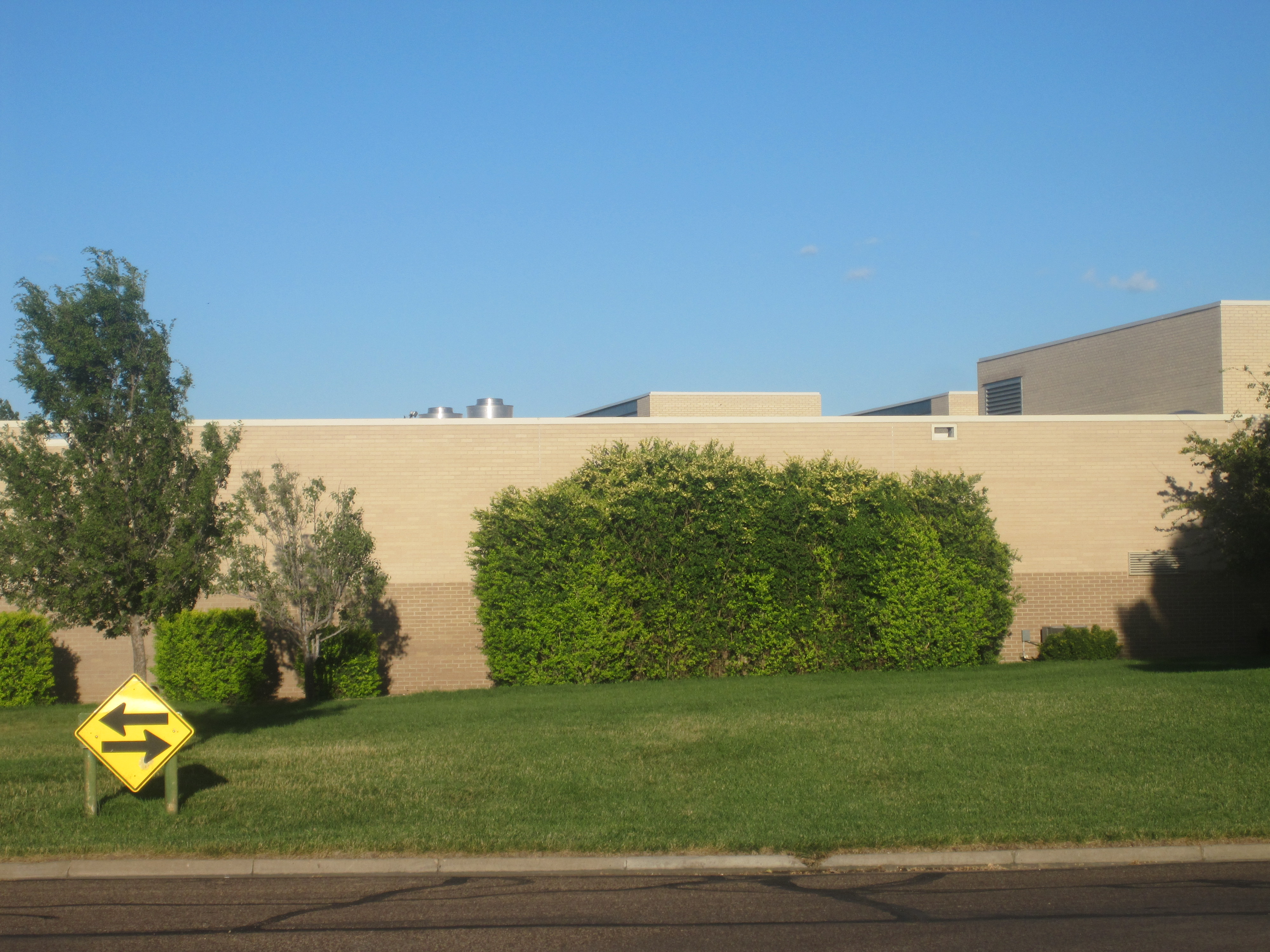 I took photo with Canon camera in Liberal, KS.